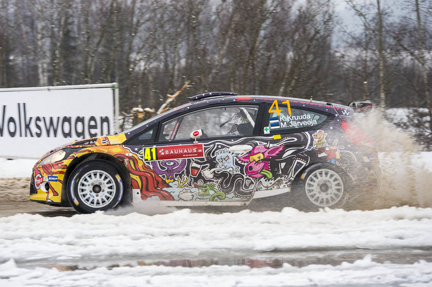 Rally Sweden 2014 Ford Fiesta S2000,Karl Kruuda,Kirkener 1,Martin Järveoja,Motorsport,Rally,Rally Sweden,Rallye,Rallye Schweden,SS3,WP3